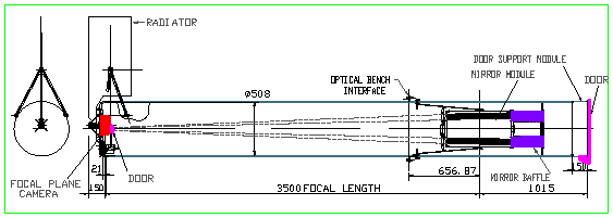 The XRT uses a grazing incidence Wolter 1 telescope to focus X-rays onto a state-of-the-art CCD.